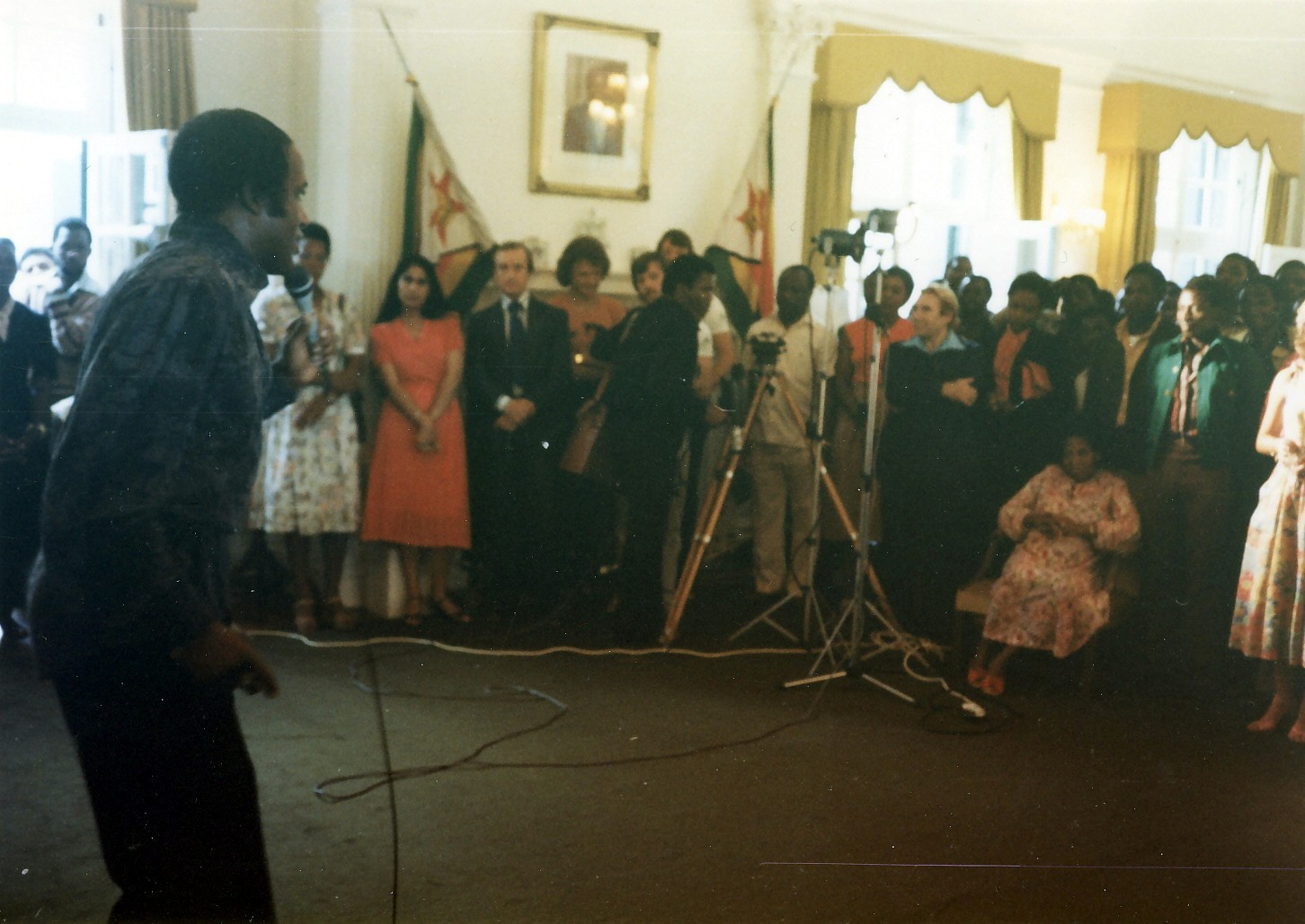 Lovelace Watkins performing for newly installed government at Presidential Palace in Harare, Zimbabwe.